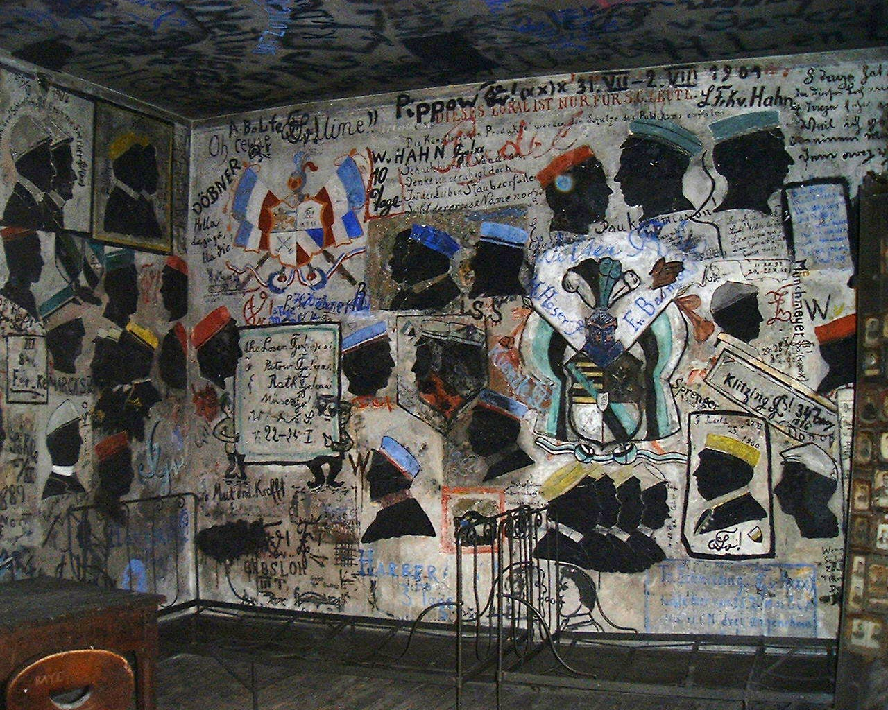 Part of the student prison of the University of Heidelberg.